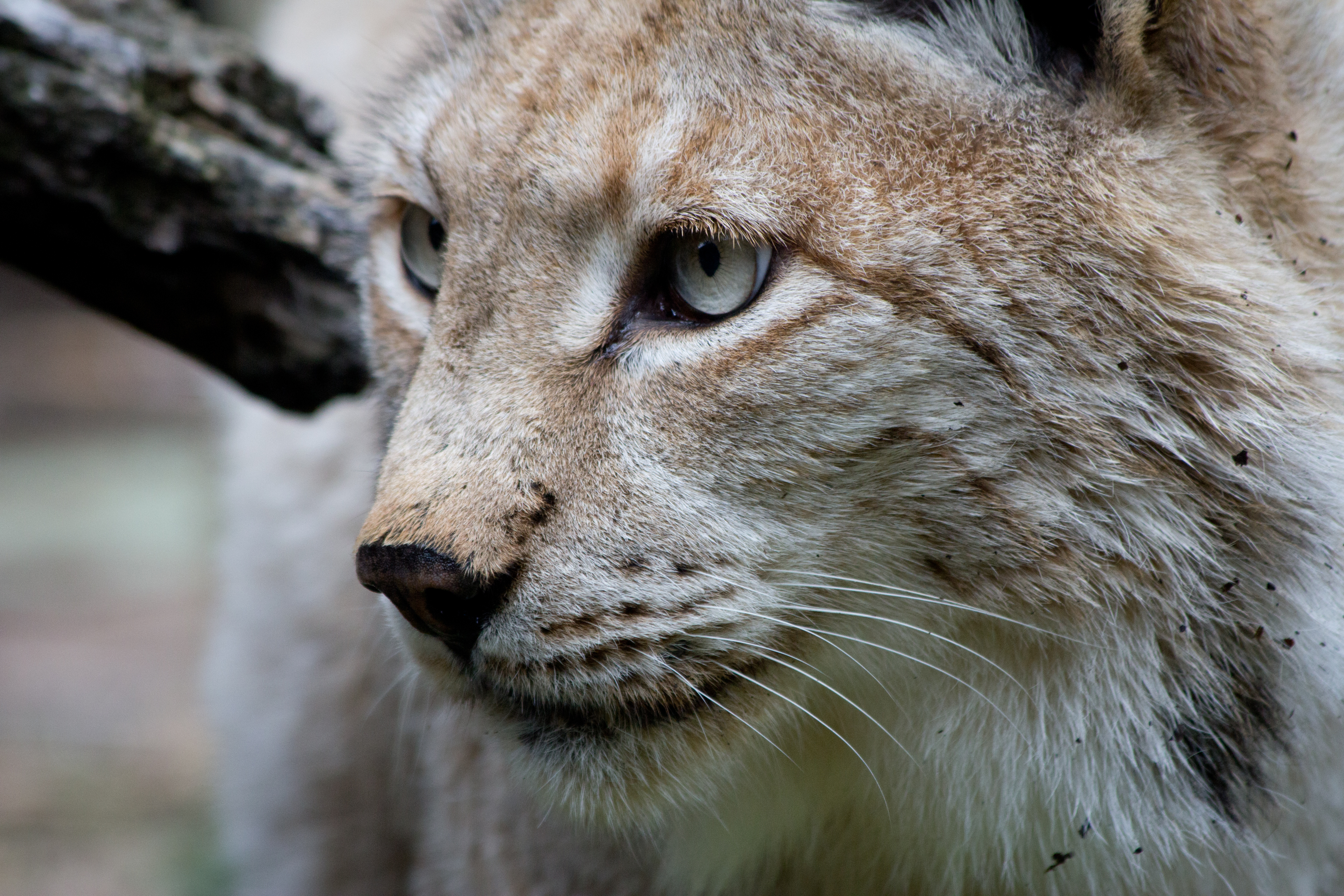 Eurasian lynx (Lynx lynx) in the Zoo of Madrid, Spain. The dark dots at the right of the image, on the lynx's fur, is dirt, possibly mud.